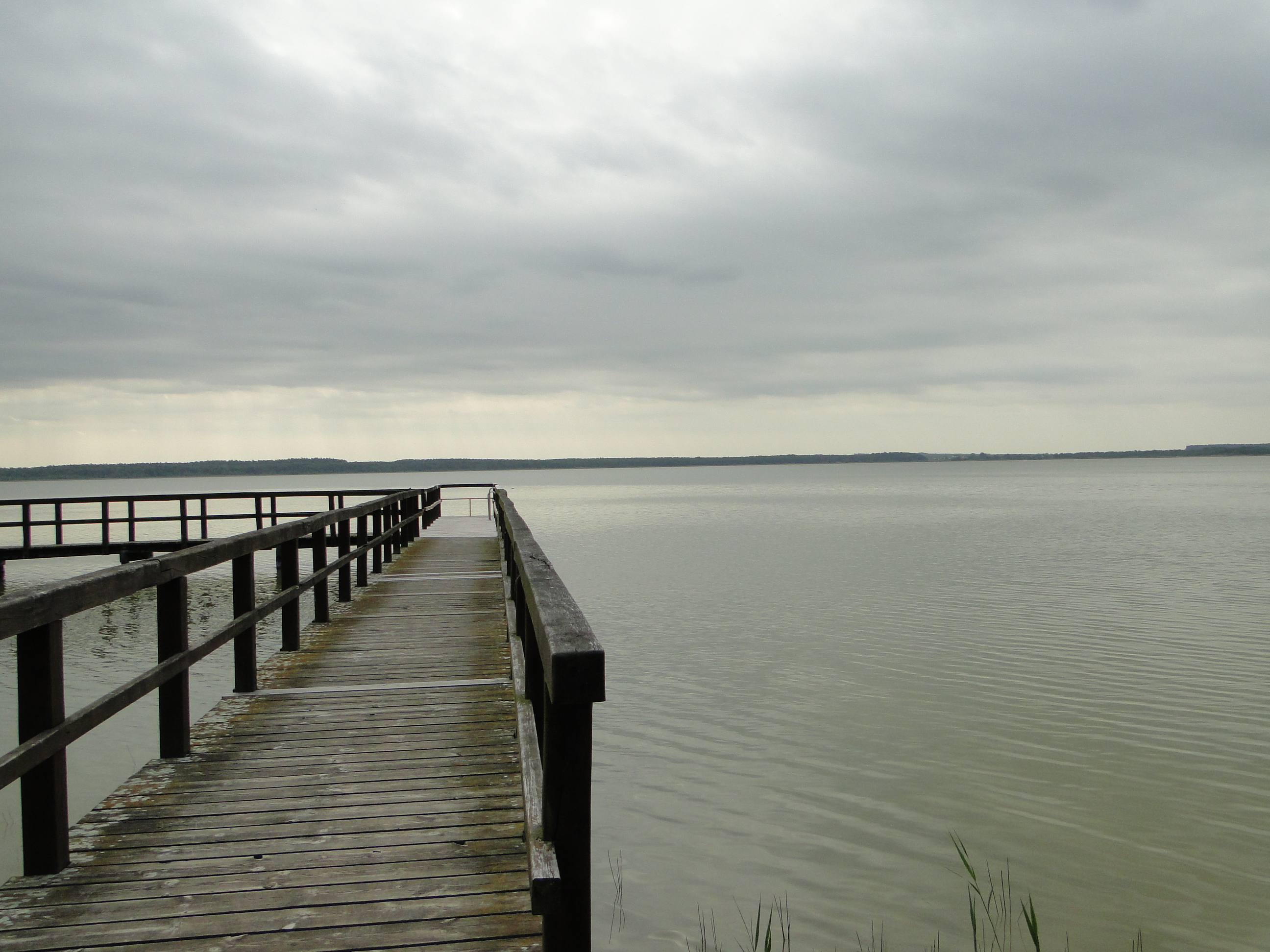 Goldberger See in Goldberg, district Ludwigslust-Parchim, Mecklenburg-Vorpommern, Germany